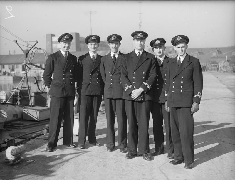 An Empire "party"- British Mgb's Rout E-boats. Lowestoft, in the Early Hours of 8 March 1943, Motor Gunboats of the Royal Navy Engaged a Group of E Boats in the North Sea. One of the E-boats Was Destroyed, the Others Fled. Among Officers Who Took Part in the Action Were Men From Britain, Australia, New Zealand and Canada. Officers of the Motor Gunboats. Left to right: Lieut C A Burke, RCNVR, Sub Lieut H W Keenan, RNVR, Lieut J S Price, RNVR, Sub Lieut Tyrwhitt-Drake, RNVR, Lieut C V Dale, RNVR.